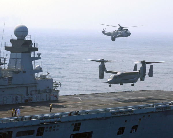 An MV-22A Osprey aircraft prepares to land aboard the Royal Navy aircraft carrier HMS Illustrious (R 06) in the Atlantic Ocean on 10 July 2007. Note the Royal Navy Sea King ASaC.7 AEW-helicopter in the background.